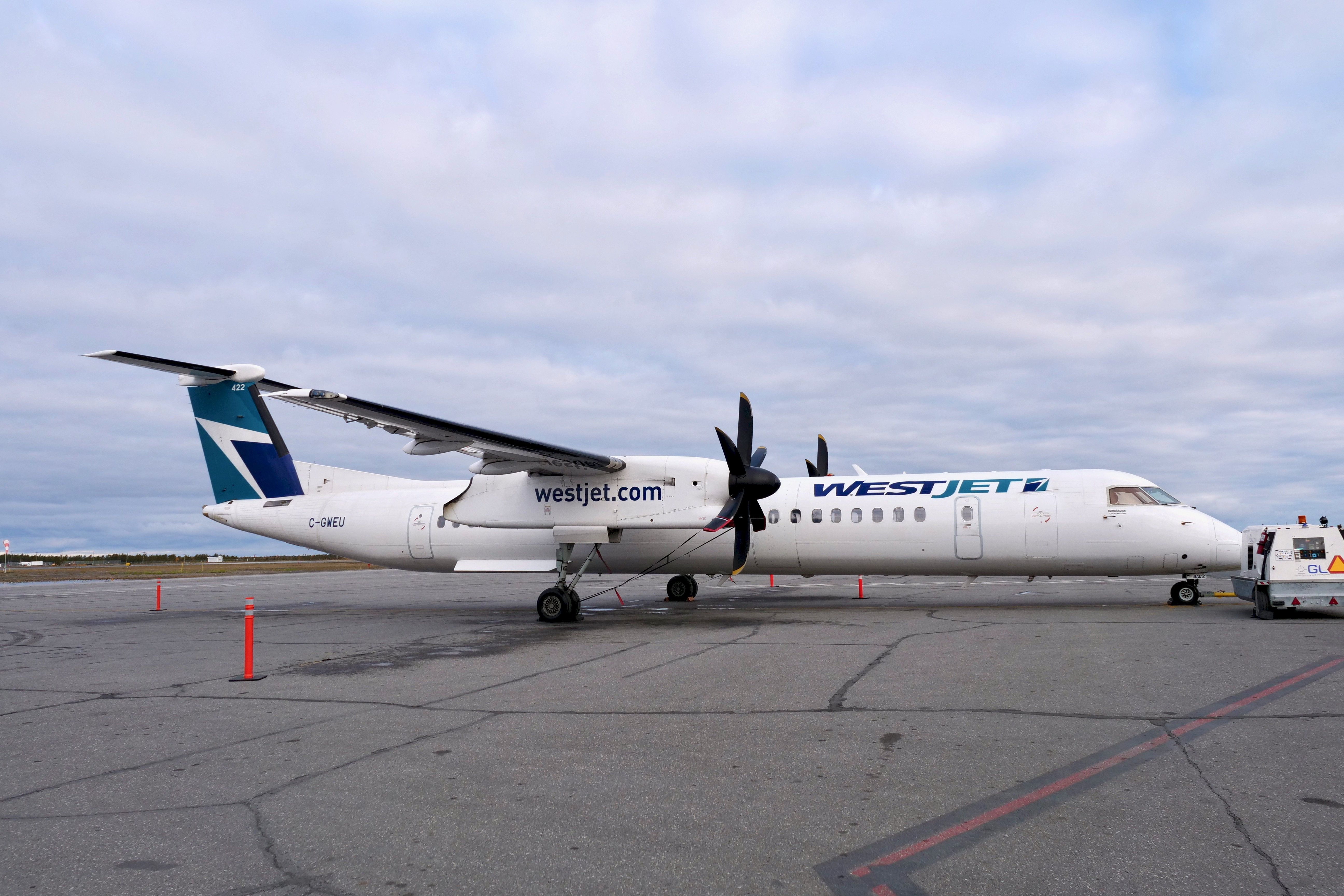 One of WestJet Encore's Dash 8-400s parked at Yellowknife Airport.